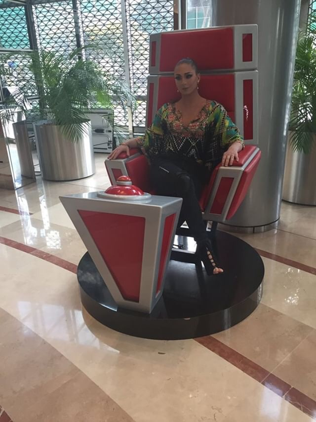 the voice edition 2019